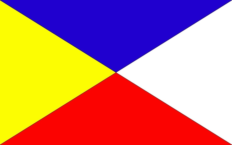 Flag of the Slovianski language.